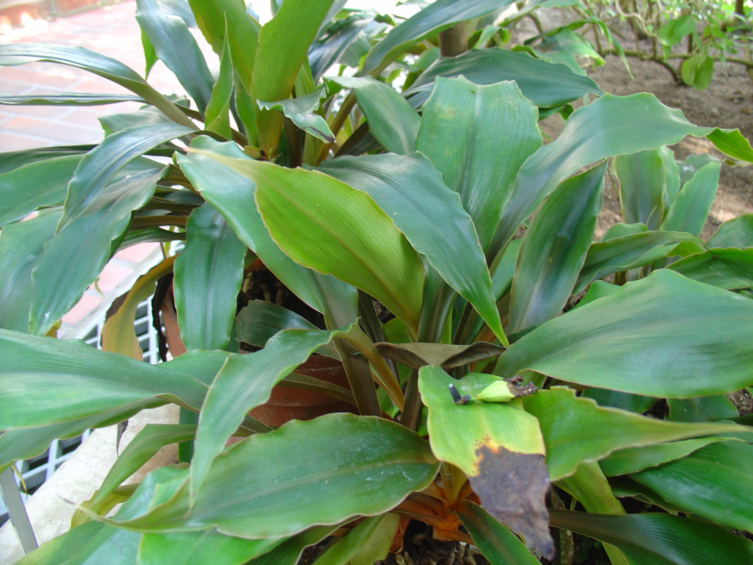 Chlorophytum orchidastrum at the University of Helsinki Botanical Garden, Helsinki, Finland.